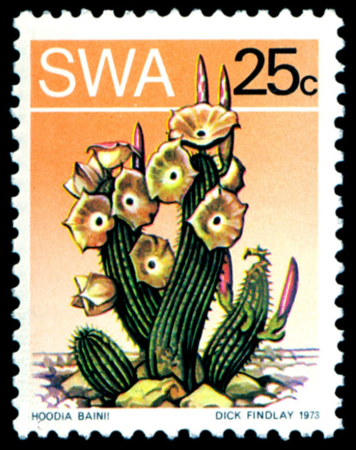 Hoodia bainii on stamp of SWA